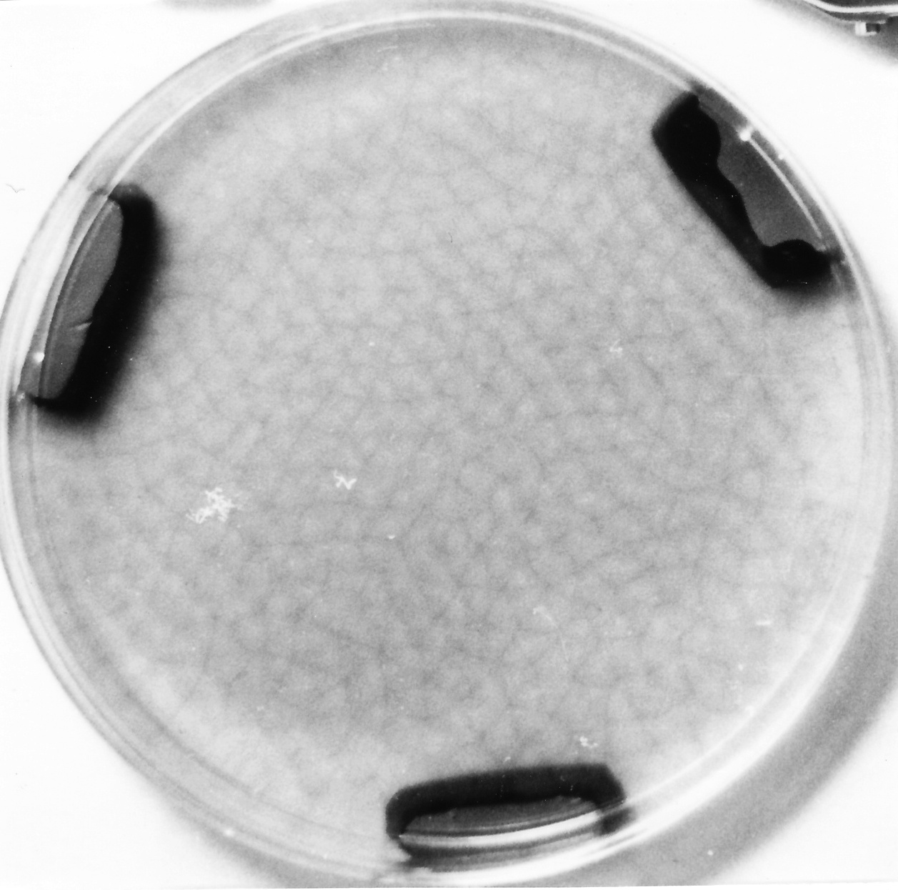 Bioconvection patterns of Euglena gracilis, almost regular triangle and square pattern, b/w